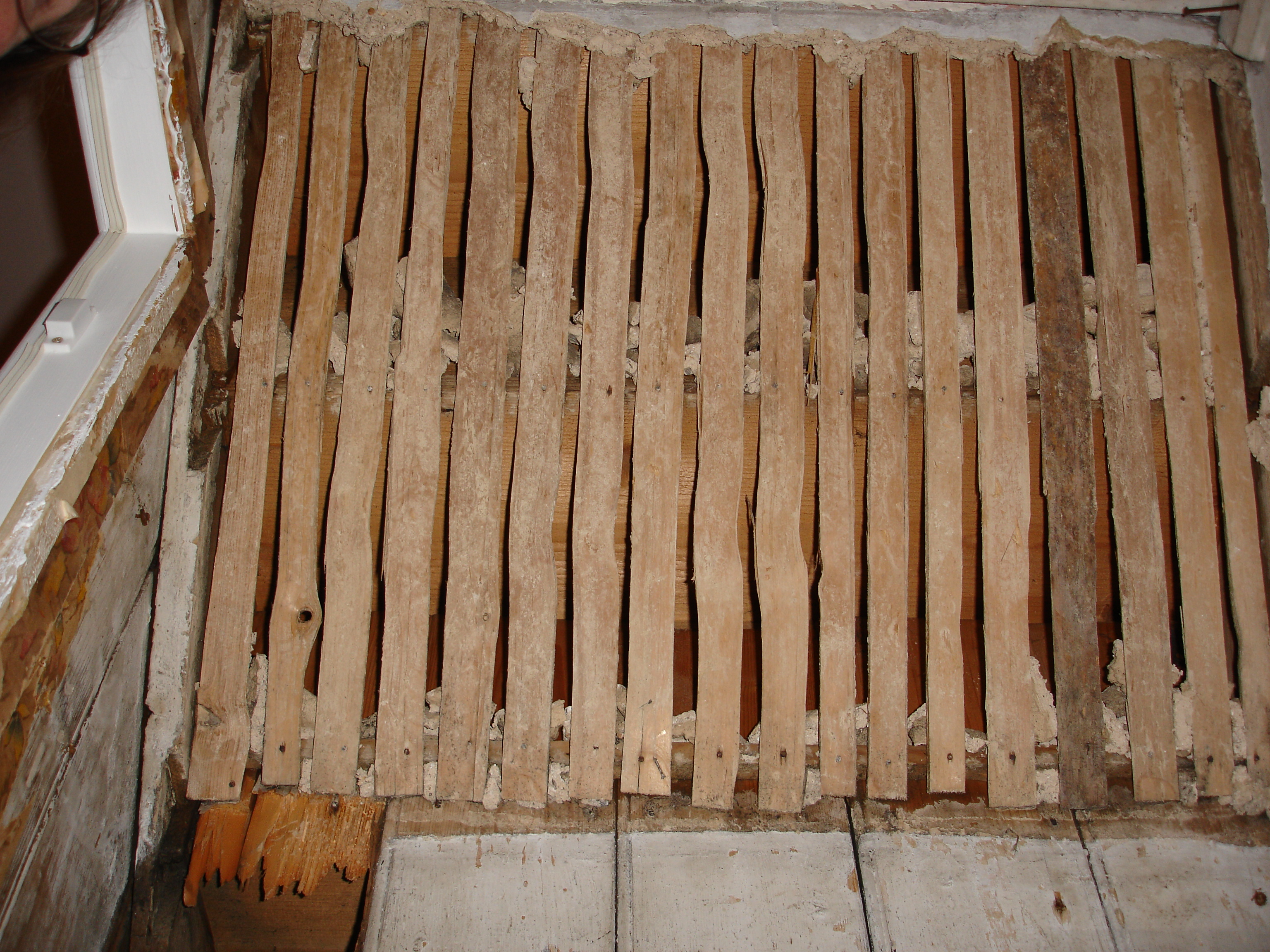 Laths after the lime plaster has been knocked off. The lath and plaster formed the underside of the stairs in a house in Canterbury, Kent, UK. The house was built in the 1880s, but there are signs of a renovation (no later than 1980 from the known history of the house; probably earlier from type of plaster), perhaps to deal with woodworm. These laths and the stairs may date from the renovation. More recent traces of woodworm can be seen in the broken timber on the left. Two sides (visible) of this under-stair cubby-hole are made from tongue-and-groove. A third side is made from a re-used Lyle's Golden Syrup box (see Image:Cupboard under stairs.jpg).